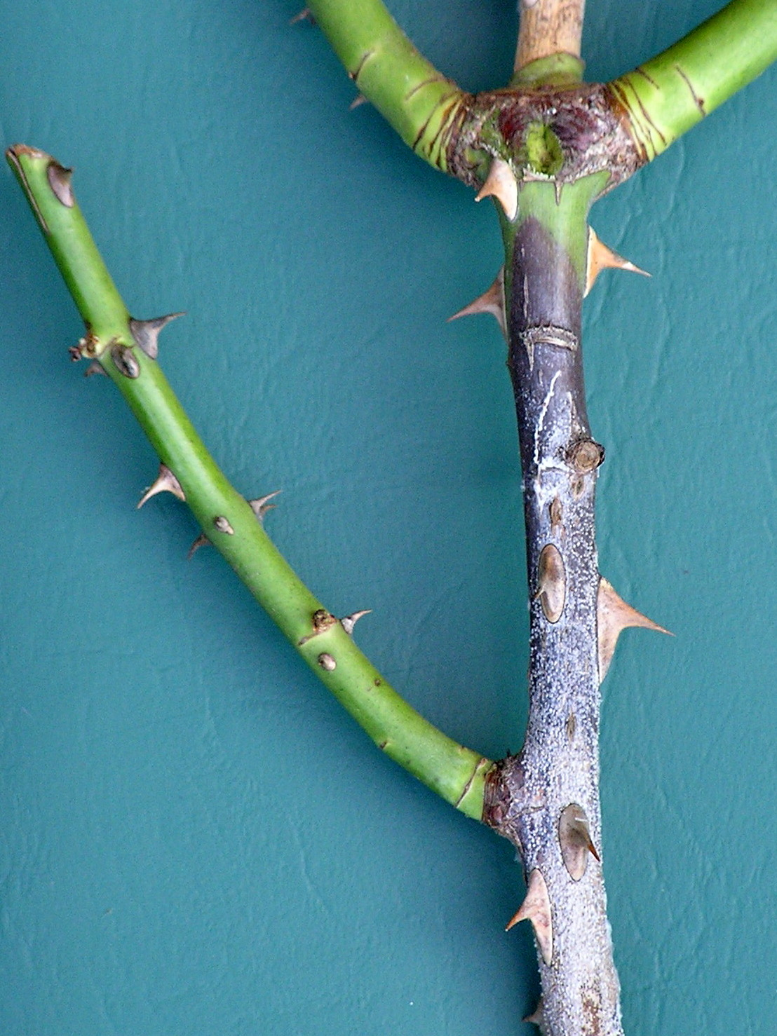 Phomopsis canker of rose - Pathogen: Phomopsis sp. (fungus)